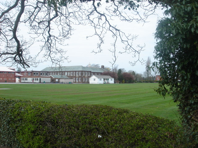 Hutton Grammar School cricket field A match about to start.